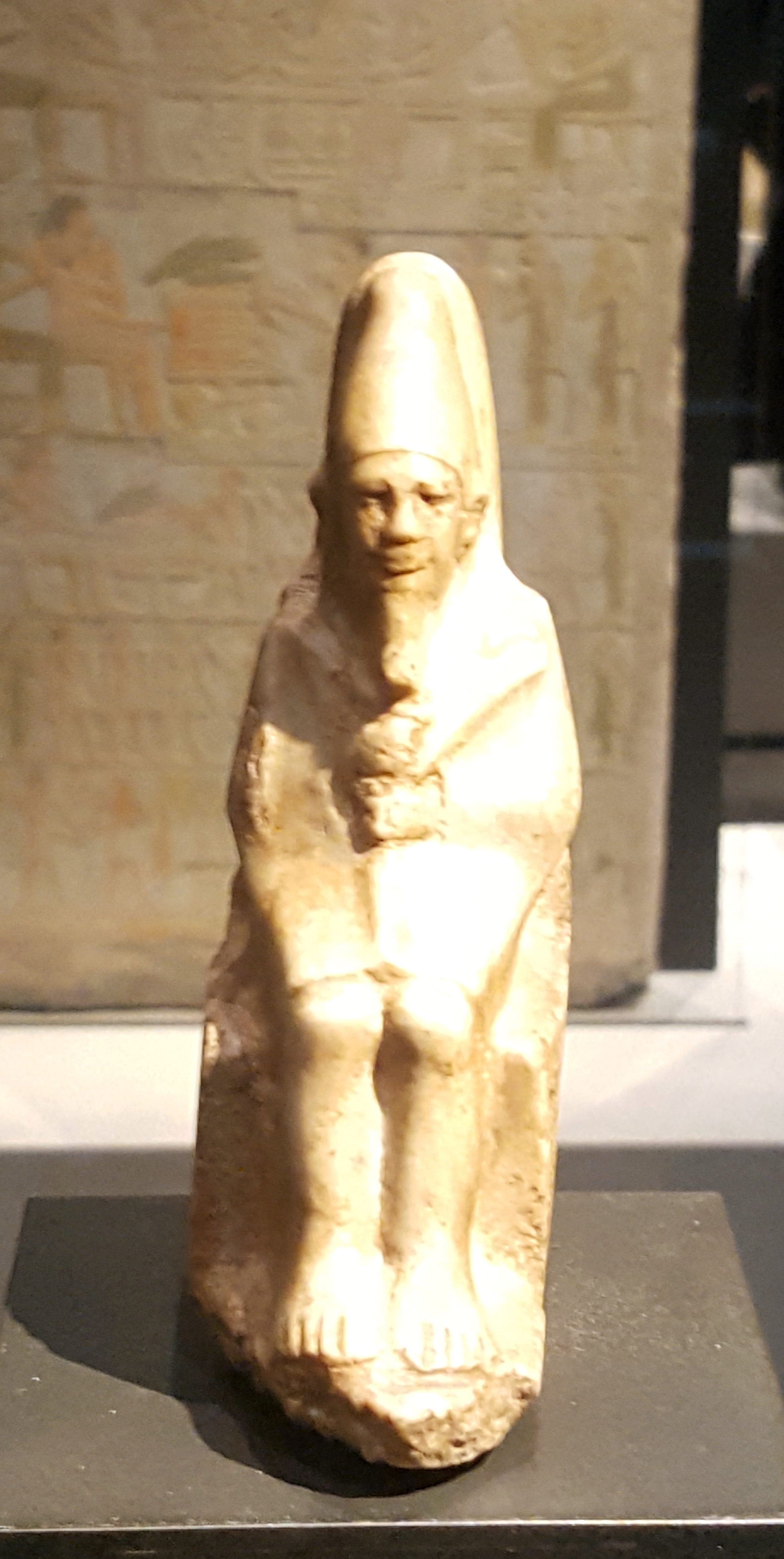 This small statue is photographed in the Rijksmuseum van Oudheden at Leiden (Netherlands). It is king Nynetjer from the second dynasty of Egypt. He is wearing his ceremonial clothes of the sed festival.